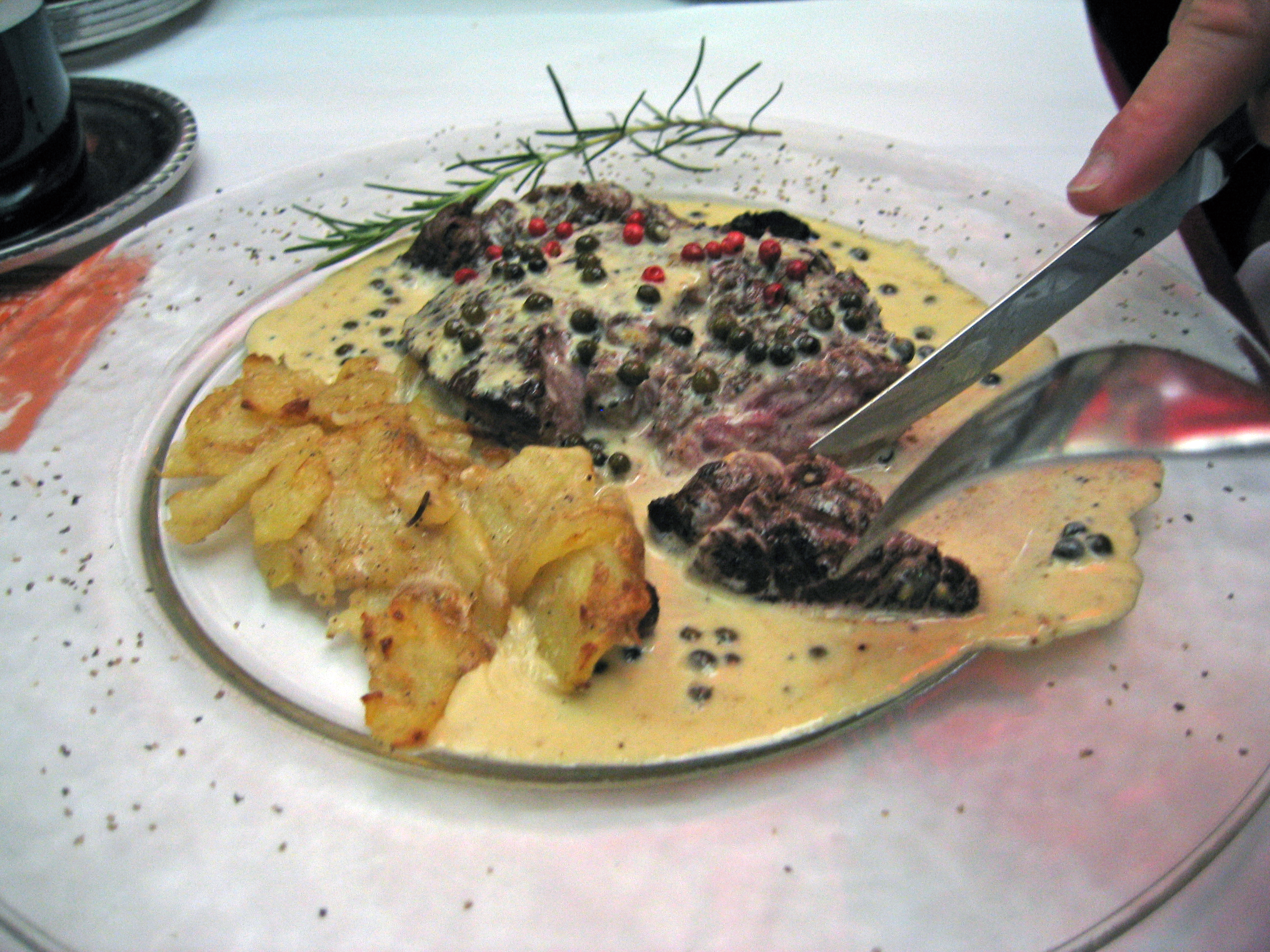 Steak with five pepper sauce